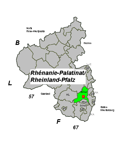 Prepared by me on, originally on the basis of a location map for Neustadt an der Weinstrasse placed in the francophone Wikipedia article